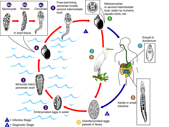 Illustrated life cycle of parasites from the genus Echinostoma, which cause the disease echinostomiasis